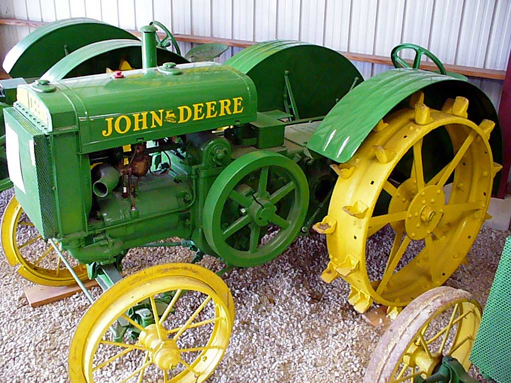 John Deere Model D Tractor - Submitted by and originally used on Our mission is to preserve the past so the future can enjoy. This John Deere D is known as a "Spoker D" due to the spoked flywheel. Beginning in 1926 the flywheel was changed to a solid flywheel. The change was mainly due to injuries when starting the tractor to the farmers hands when they could become caught in the spokes of the flywheel.